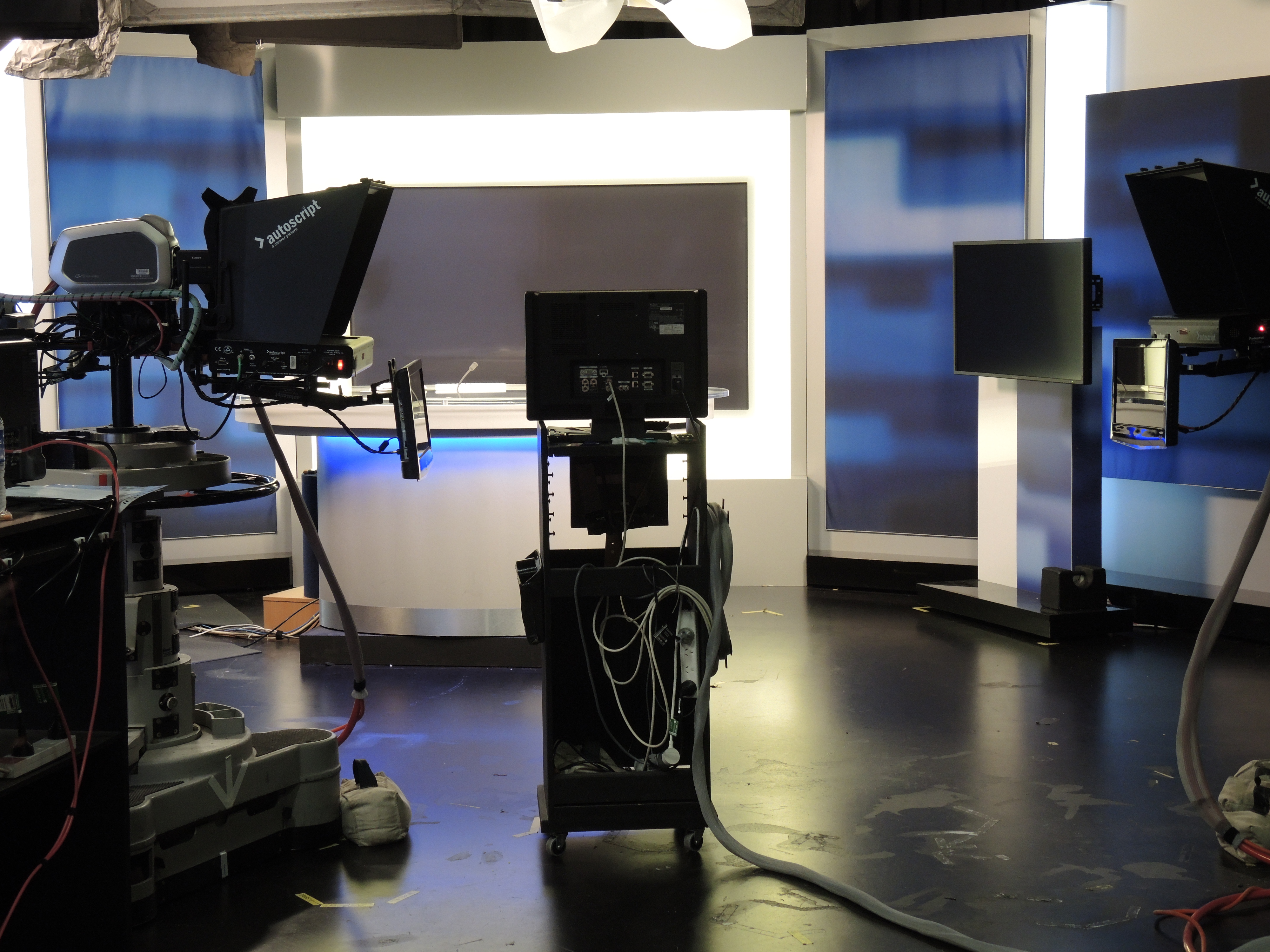 ABC Building Perth (photo taken at Open House Perth 2014 tour): News studio